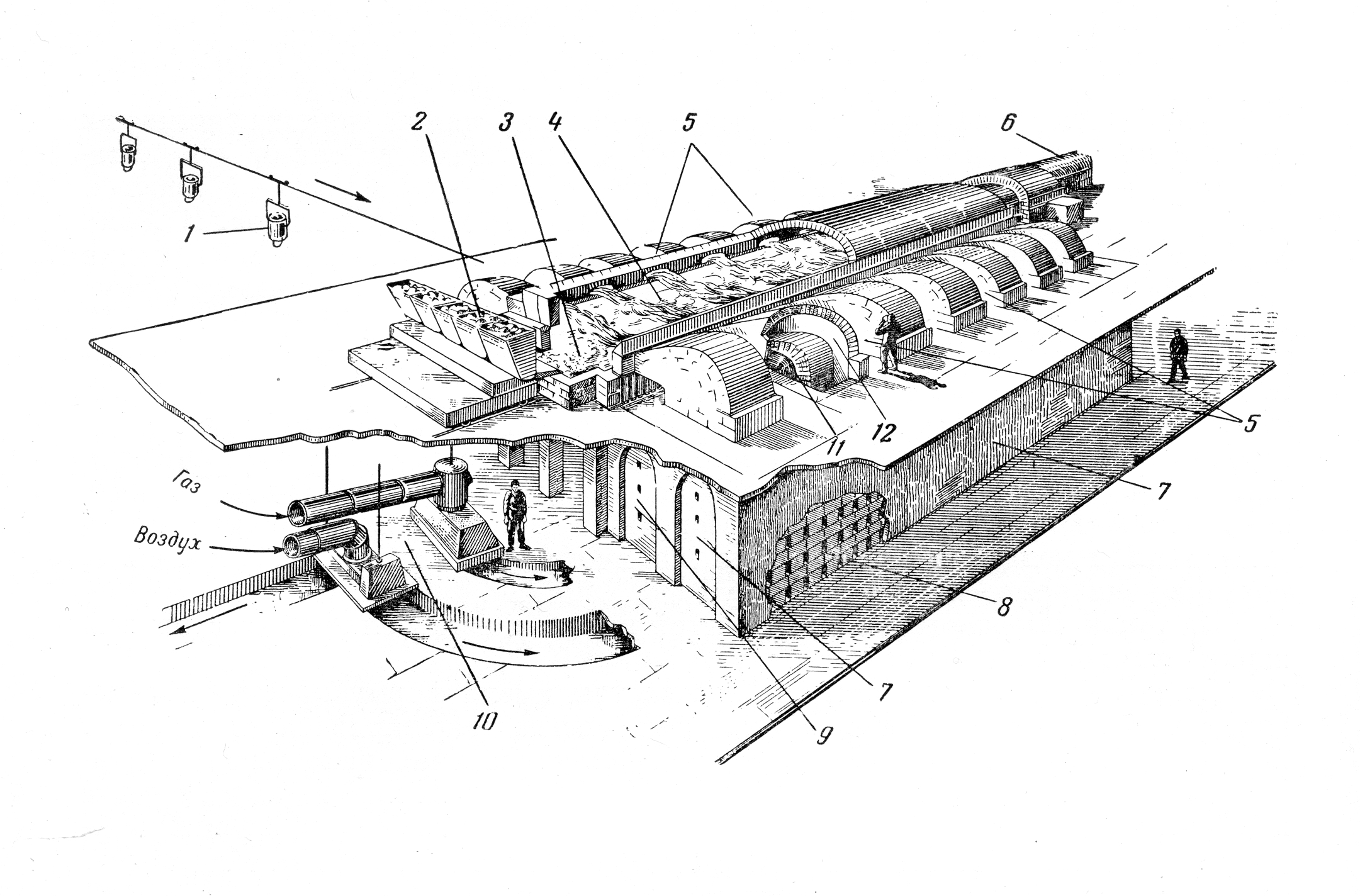 Reservoir's glassworks furnace